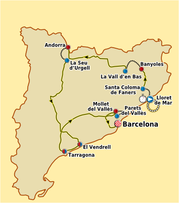 Route Volta Catalunya